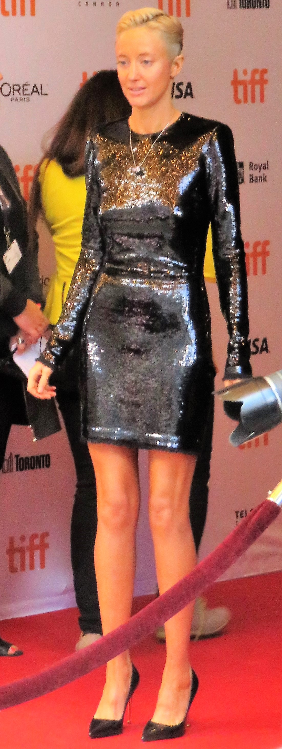 Andrea Riseborough at the premiere of Death of Stalin, 2017 Toronto Film Festival